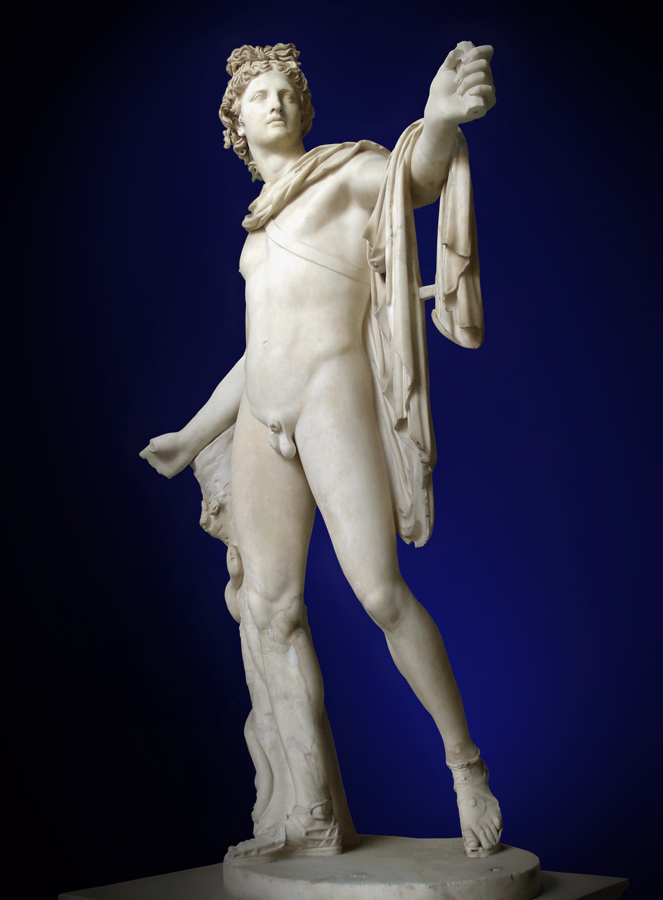 Roman copy after a Greek bronze original of 330–320 BC. attributed to Leochares. Found in the late 15th century.